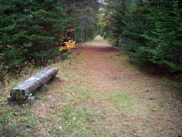 Cross Vermont Trail, Montpelier-Wells River Railroad, Newbury, Vermont.